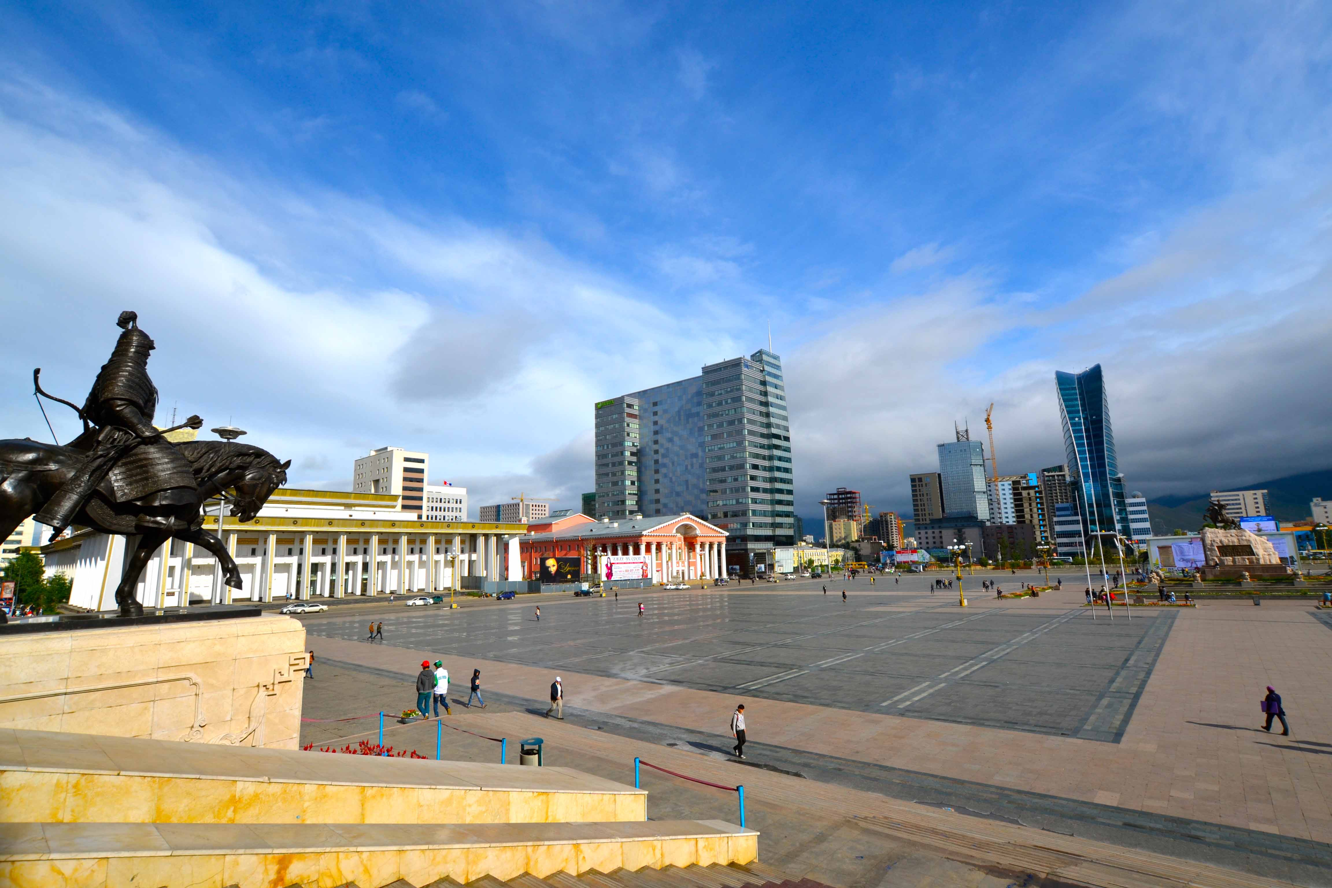 The Sukhbaatar Square, downtown Ulaanbaatar, Mongolia